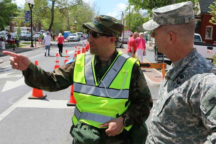 Brig. Gen. Timothy P. Williams, the Adjutant General of Virginia, and Command Sgt. Maj. Alan M. Ferris, Senior Enlisted Advisor for the Virginia National Guard, visit members of the Virginia Defense Force and the 29th Division Band May 2, 2015, at the 88th Shenandoah Apple Blossom Festival in Winchester, Va. The visit included a stop at the Timbrook Public Safety Building where the Winchester Police Department and other public safety officials, including a VDF liaison officer, monitored festival activities. Members of the VDF volunteered their time to operate more than 50 traffic control points during the 10K race and Grand Feature Parade, and Soldiers from the 29th Division Band marched in the parade.